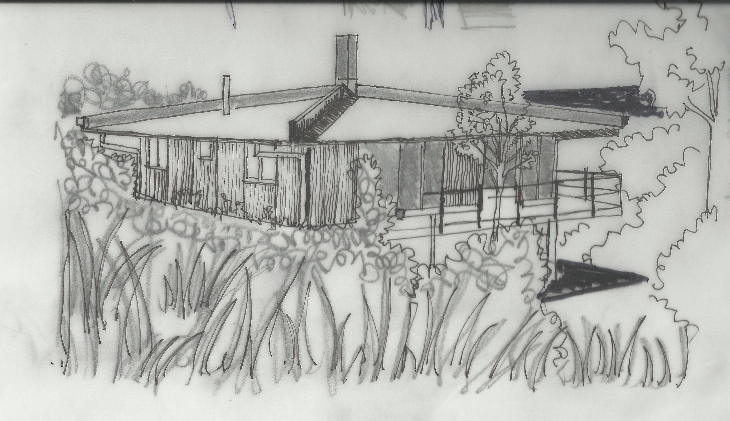 Image of Jacobi House